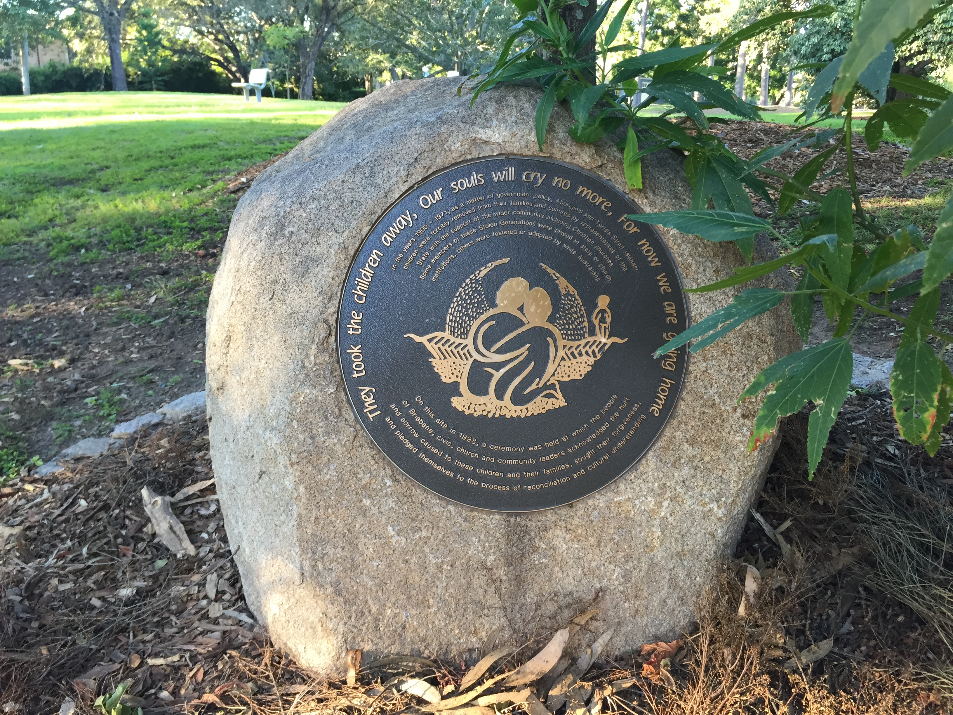 Stolen Generations Memorial in Sherwood Arboretum, Queensland